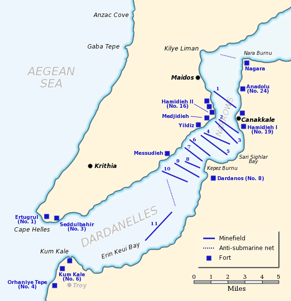 Map of the Dardanelles defences in February and March, 1915. The original lines of naval mines are numbered 1 to 10. The 11th line, laid in Erin Keui Bay by the minelayer Nusrat on 8 March, is numbered 11. The anti-submarine nets are shown as dotted lines. Major forts are indicated with blue boxes and the Turkish name and equivalent British number for the fort is given, if known. Based on a maps from: A Short Military History of World War I - Atlas, edited by T. Dodson Stamps and Vincent J. Esposito, 1950 Gallipoli: A Battlefield Guide, Phil Taylor & Pam Cupper, 1989 Gallipoli, Les Carlyon, 2001.